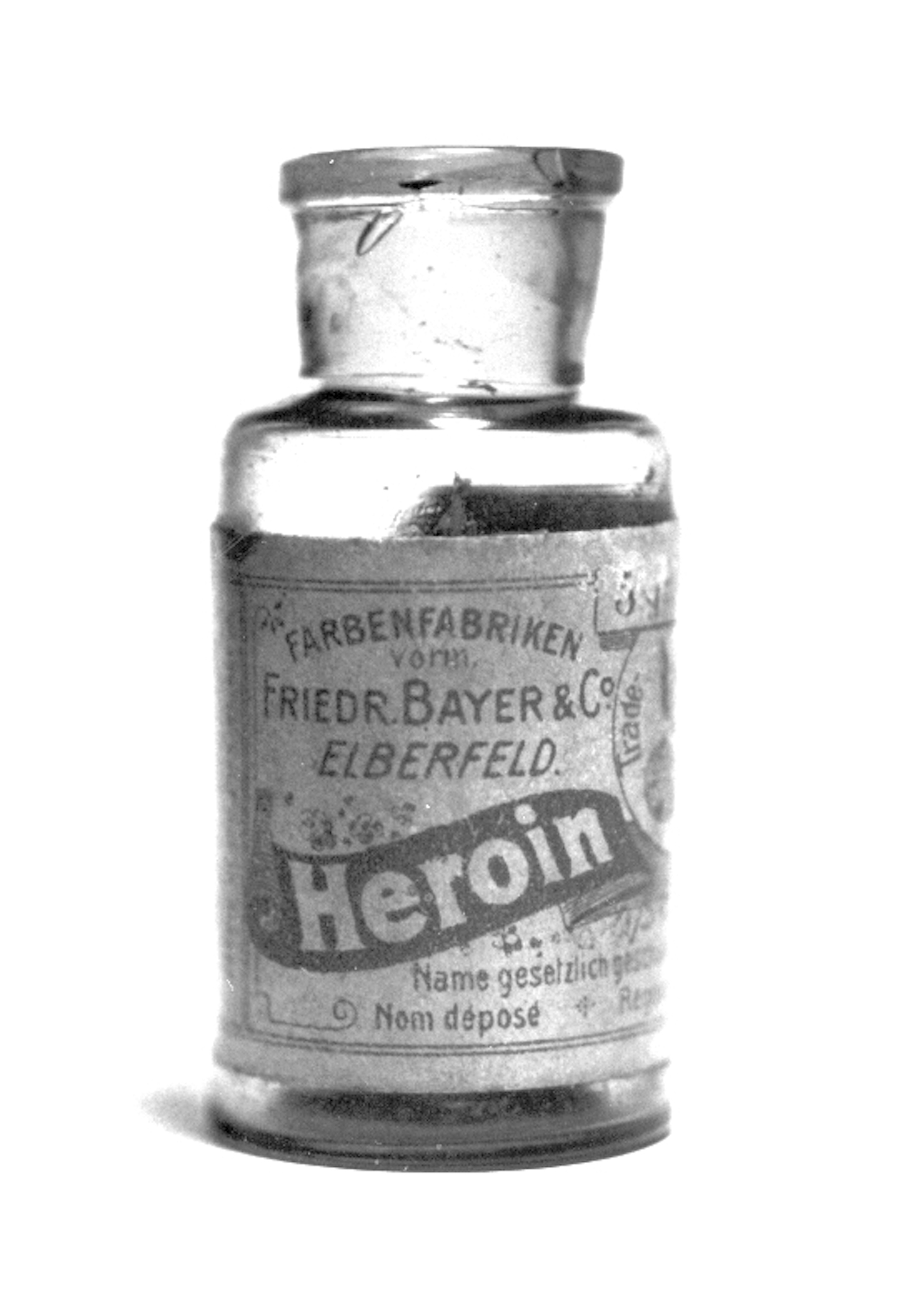 Bayer heroin bottle, originally containing 5 grams of Heroin substance. The label on the back references the 1924 US ban, and has a batch number stamp starting with 27, so it probably dates from the 1920's.